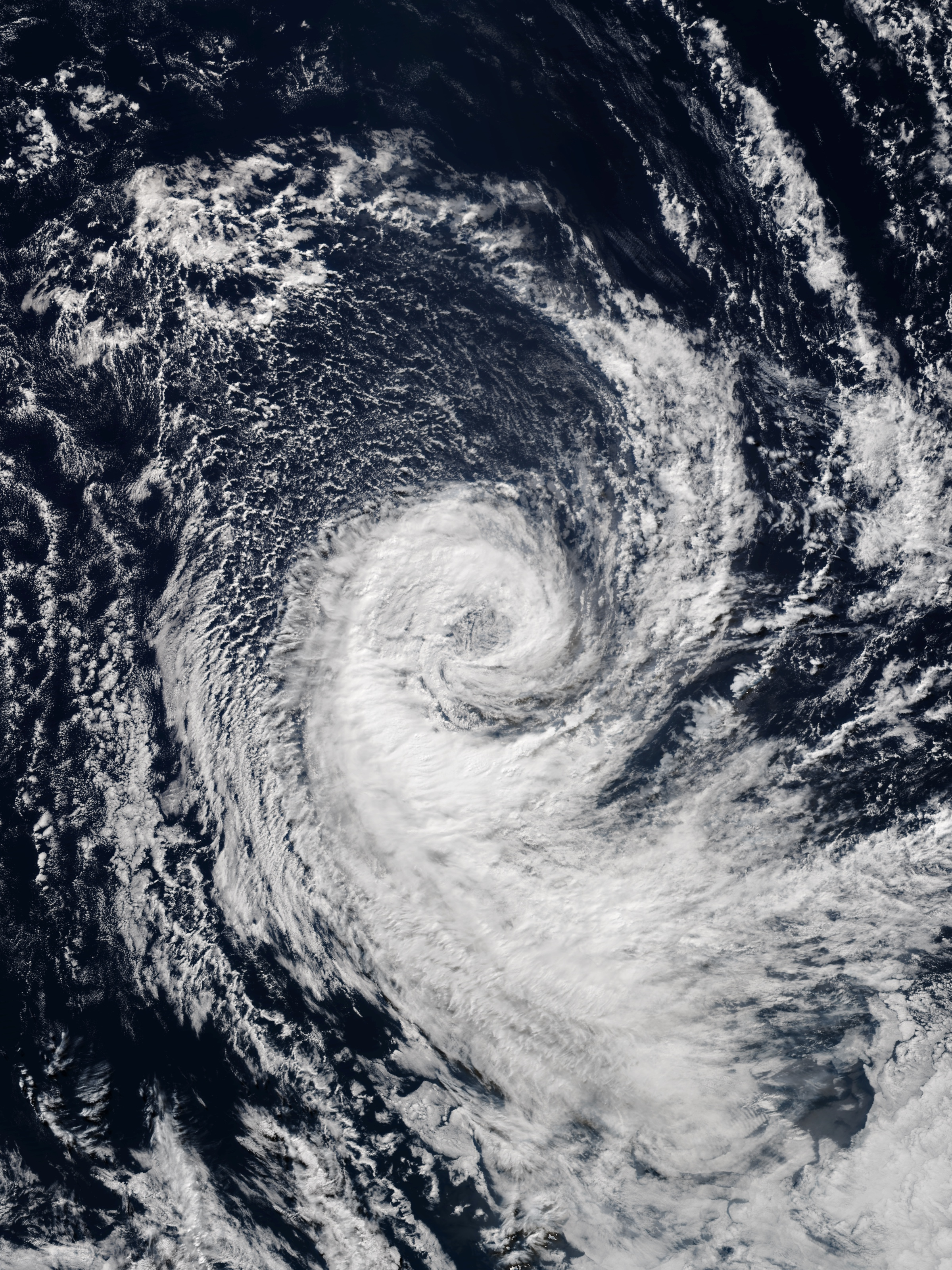 A subtropical cyclone (code-named “Katie”) east-southeast of Easter Island on 2 May 2015. Tropical cyclogenesis is extremely rare in the Southeast Pacific Ocean.